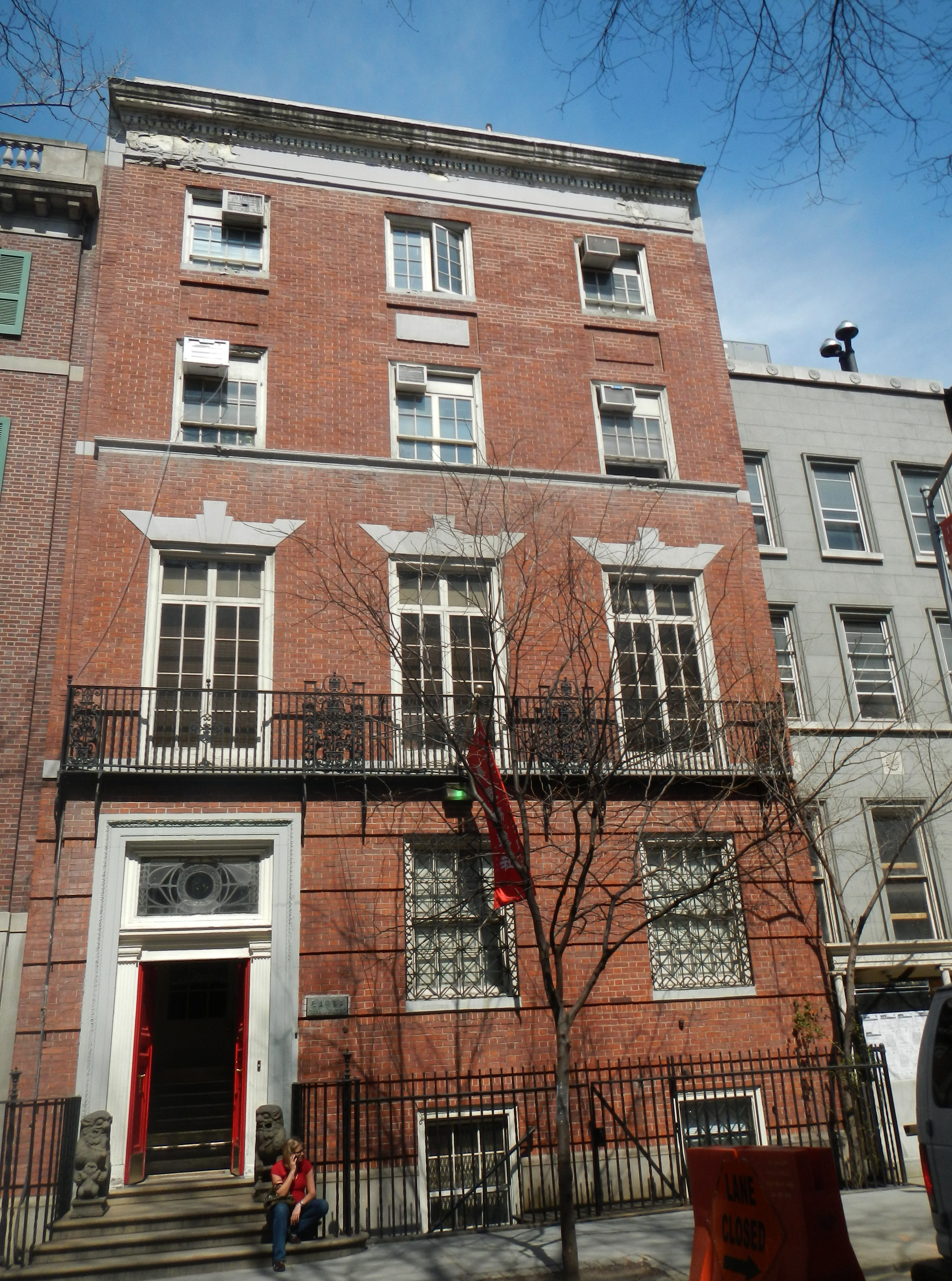 Looking northeast at the Institute's building on a sunny day.